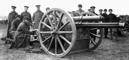 A Canadian Artillery, Ordnance QF 18-pounder Field Gun, at Camp Valcartier. With the coming of WW1, the ‘Canadian Permanent Active Force’ gunners adopted the British model of designating batteries as either ‘horse artillery’ or ‘field artillery’. Canadian Non-Permanent Active Militia gunner units assumed the ‘field artillery’ designation, equipped with an Ordnance QF18-pounder.